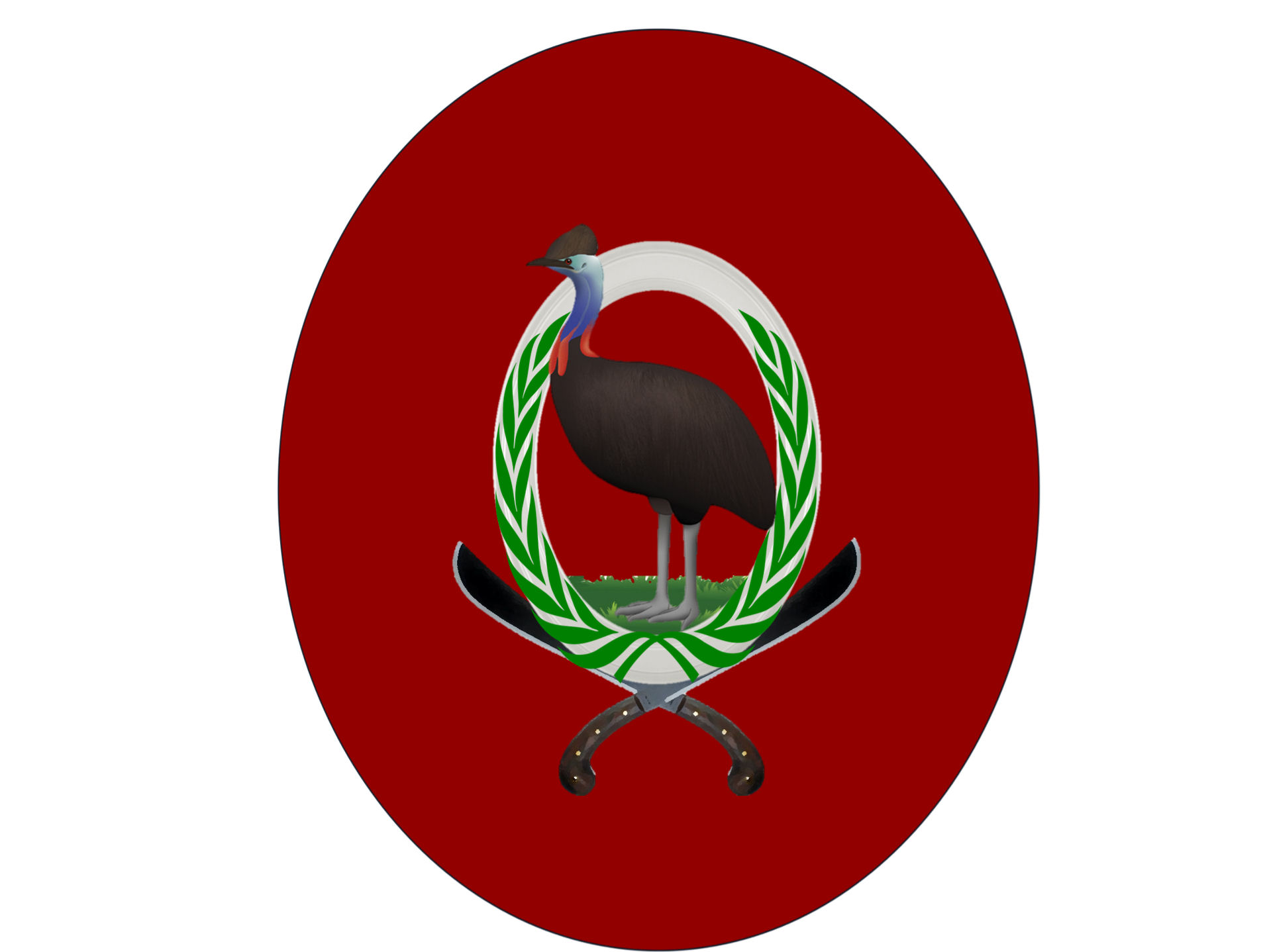 PVK Papua Vrijwilligers Korps Papuan Volunteer Corps Dutch New Guinea West Papua Indonesia Netherlands